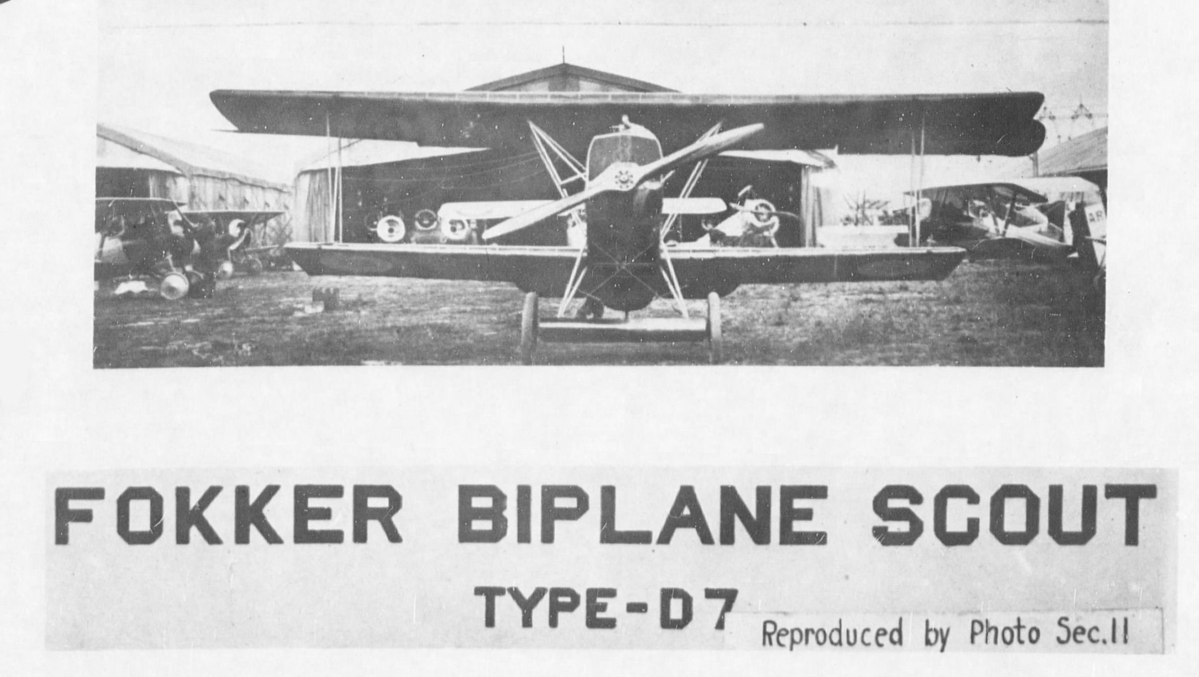 Captured Third Army German Fokker D.VII, taken at Coblenz Aerodrome, Germany